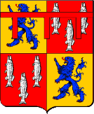 Armes de Henry Percy 'Hotspur'